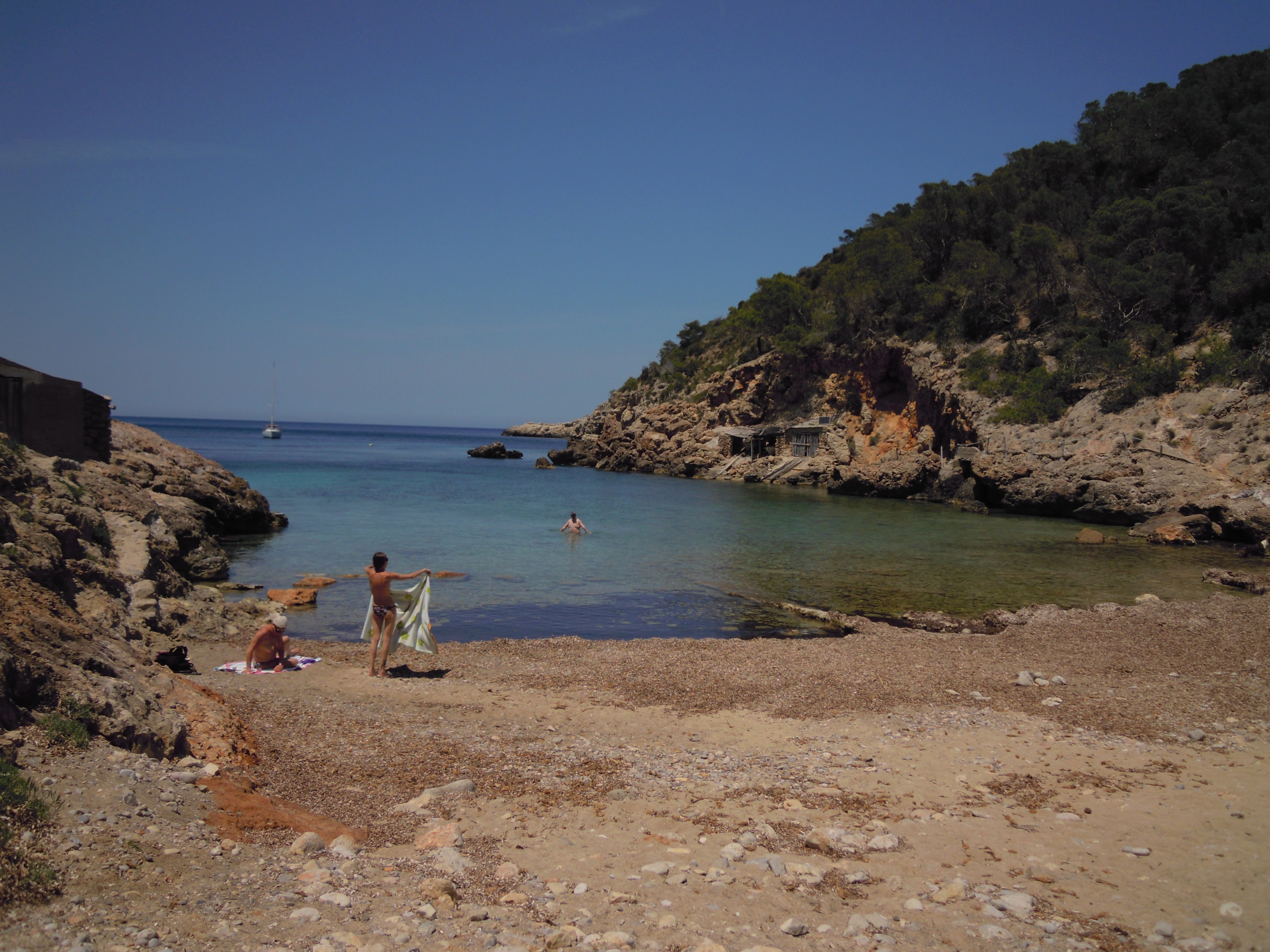 The beach of Cala Xucle near Portinatx, Ibiza, Spain